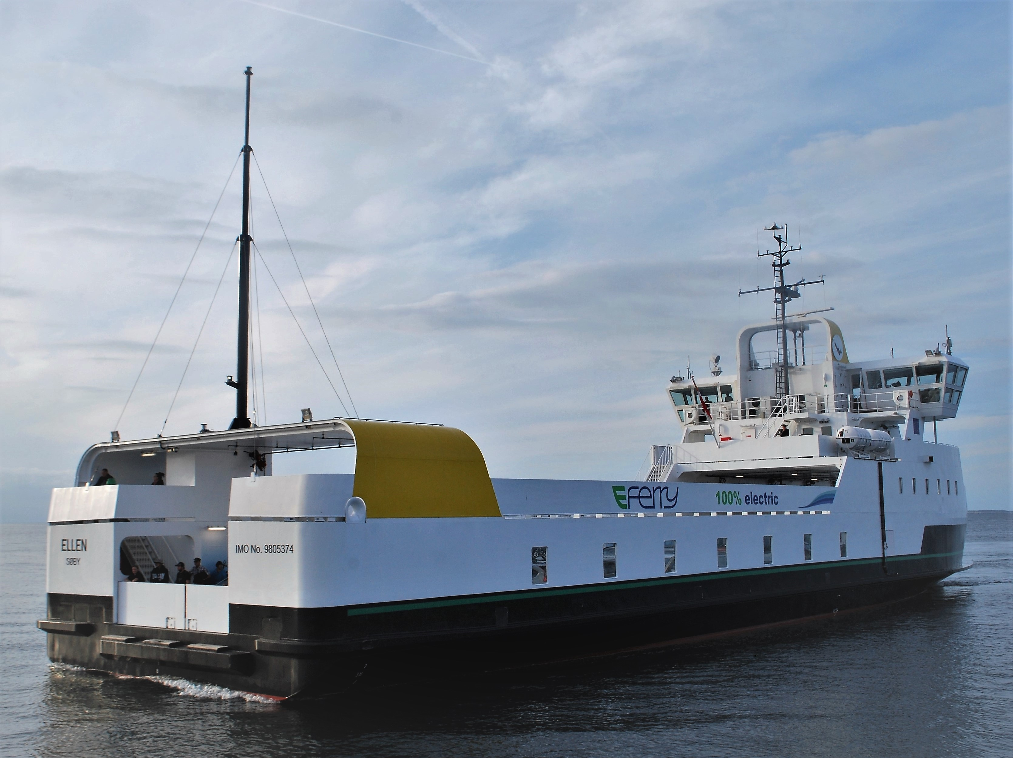 Since 15-08 2019 operated Ærø Municipality with the E-ferry Ellen between the southern danish ports of Fynshav to Søby, on the island of Ærø, Denmark.